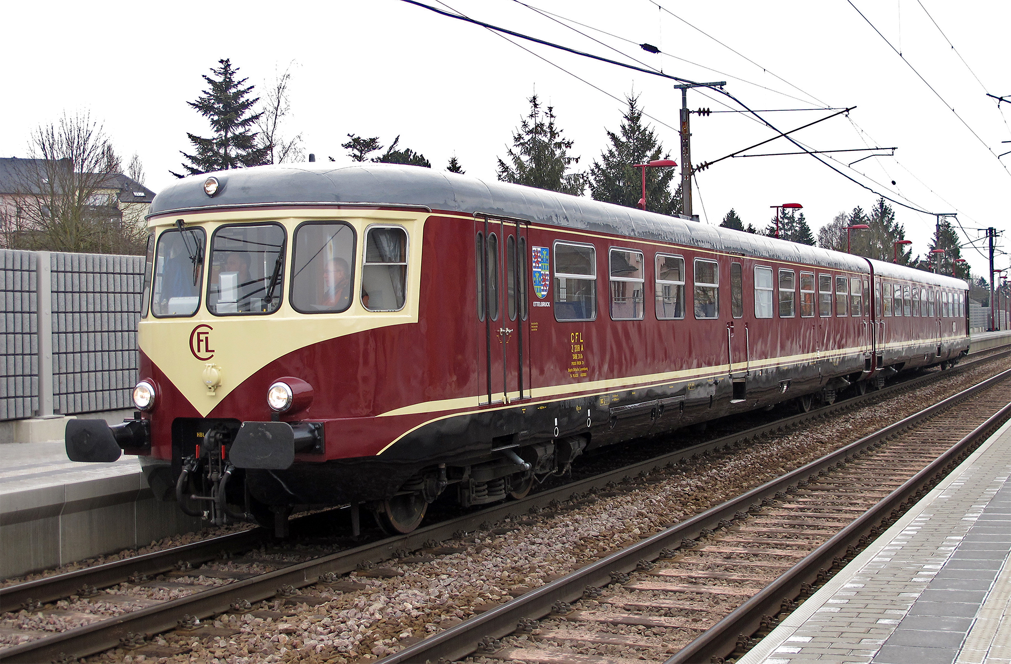 CFL Z208 Westwaggon in the station of Noertzange